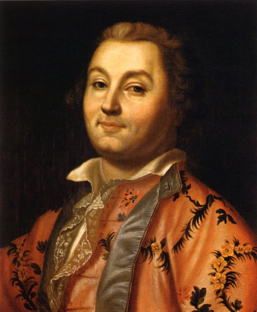 Portrait of Count Grigori Grigorjewitsch Orlov